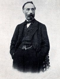 The Italian politician Francesco Crispi (1818-1901) in 1860.